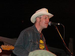 Victor Krummenacher performing at the Camper/Cracker Campout 2006 in Pioneertown, California.